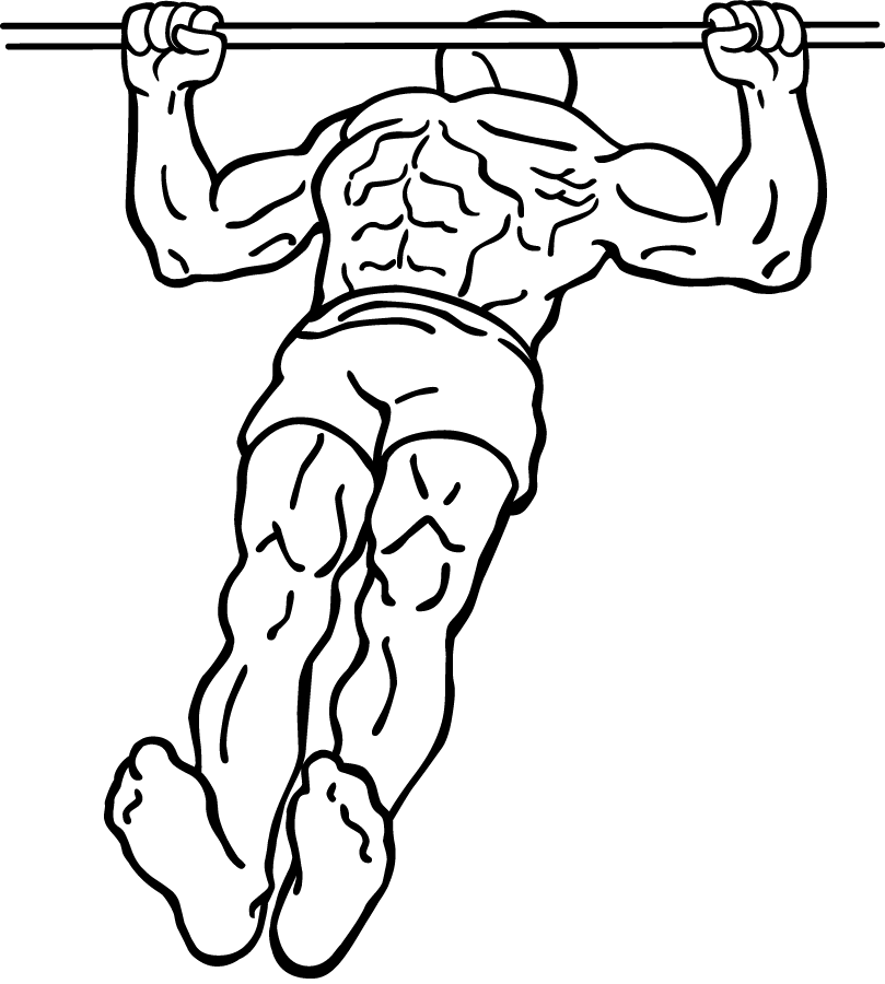 an exercise of upper back